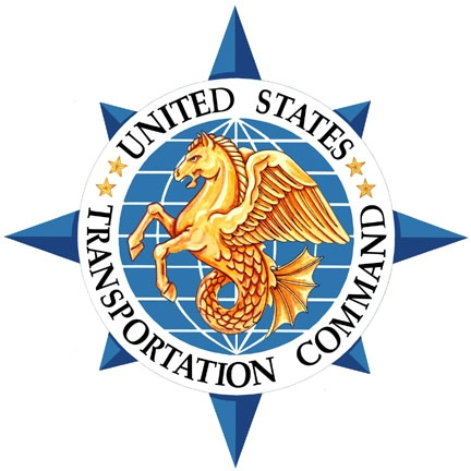 United States Transportation Command seal.